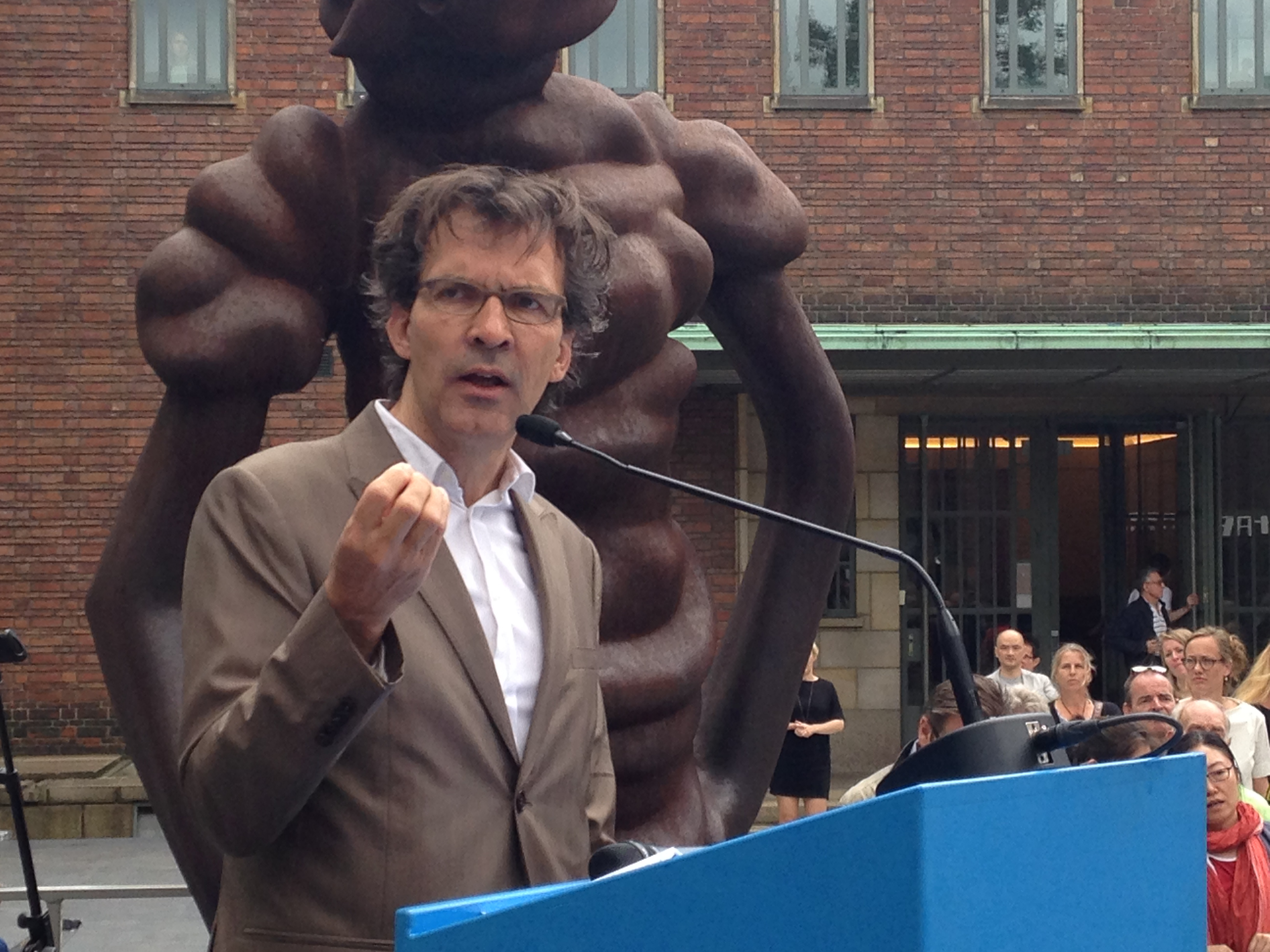 Sjarel Ex, director of Museum Boijmans Van Beuningen in Rotterdam, speeches during the opening of the exhibitions Paul Noble / Focus Beijing. Photo taken on the patio of Museum Boijmans Van Beuningen.